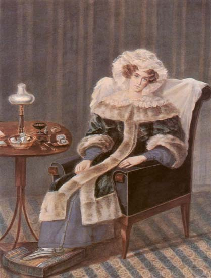 Portrait of Natalia Volkonskaia (1784-1829)